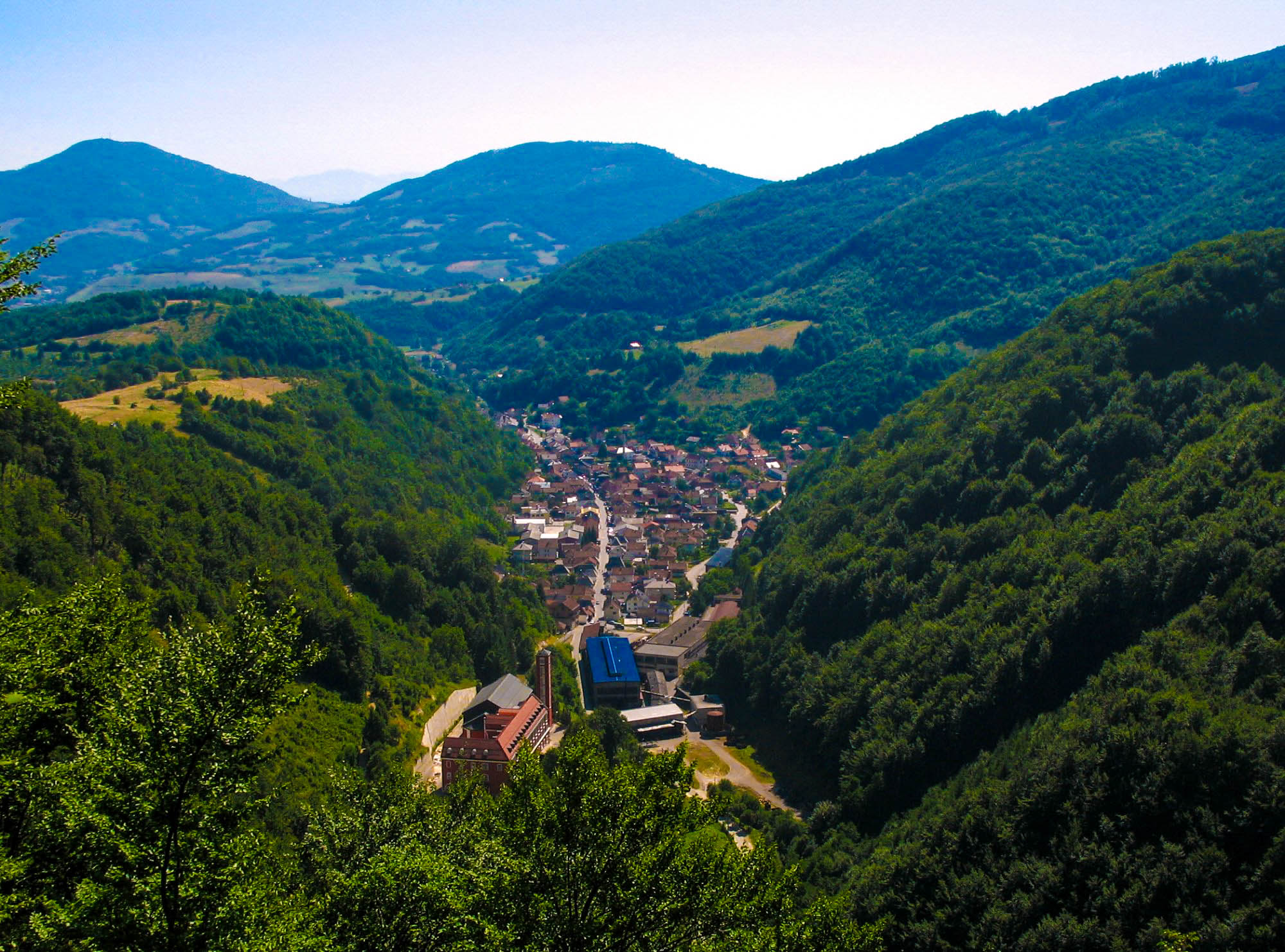 town Kreševo in Bosnia - a view from the Chapel of Knez Radivoje